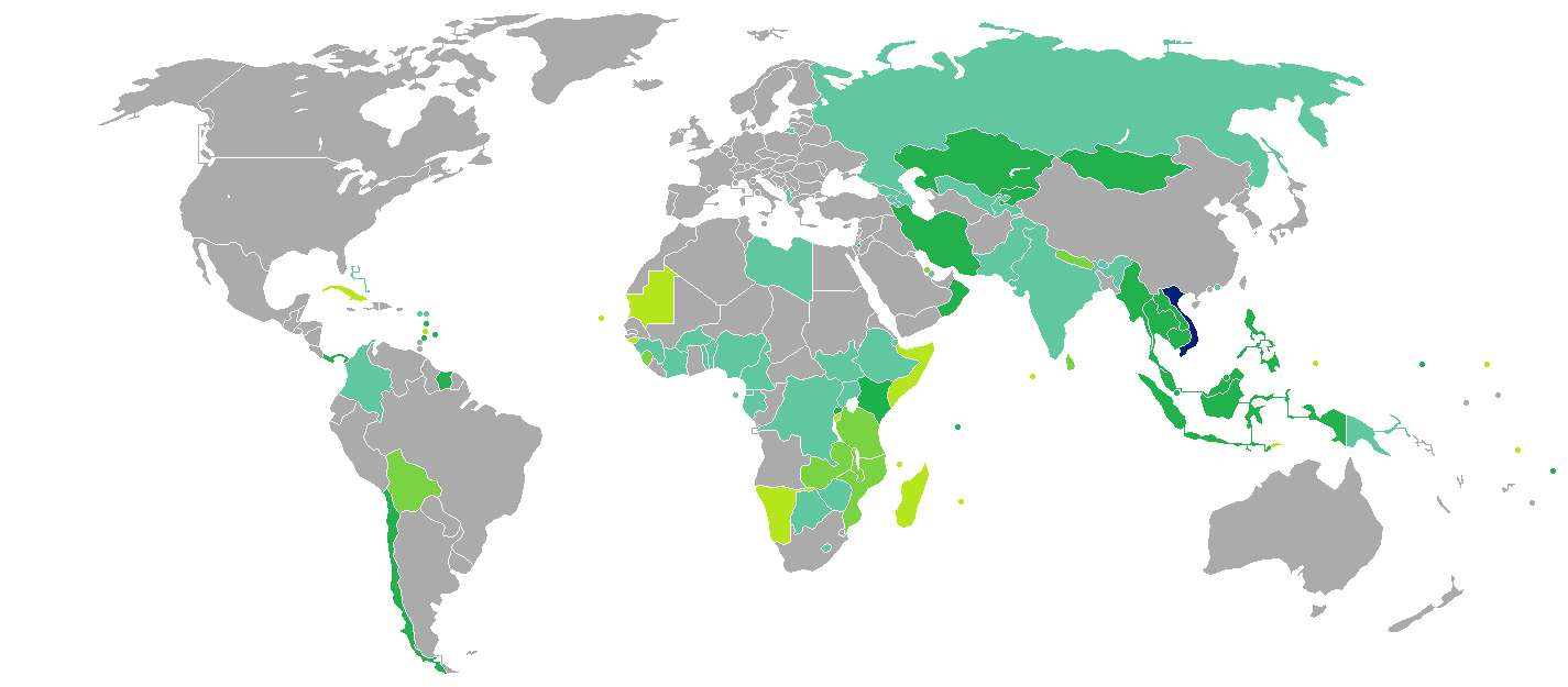 Visa requirements for Vietnamese citizens. Vietnam Visa free access Visa on arrival eVisa Visa available both on arrival or online Visa required